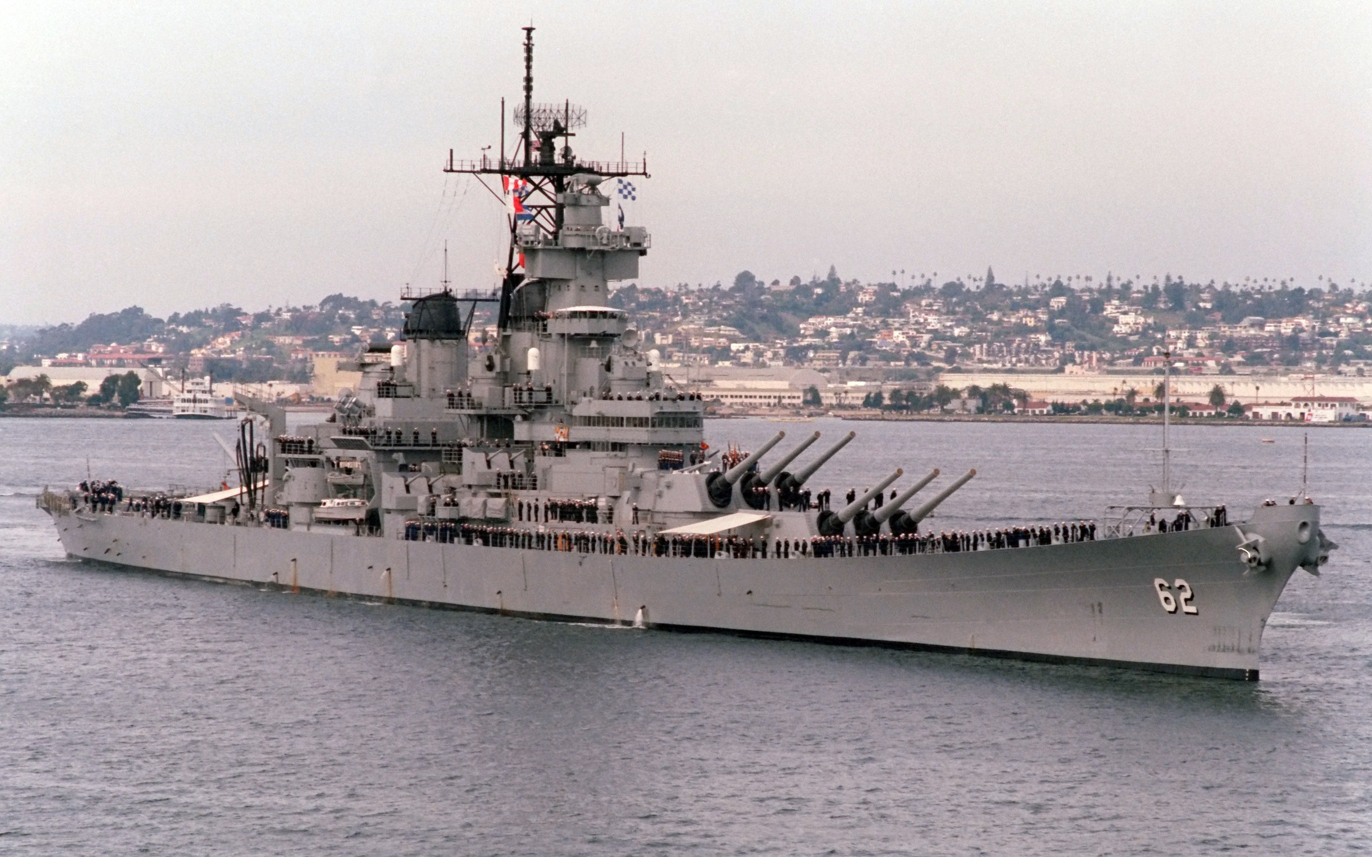 (ID: DN-SC-87-11569) Crew members man the rails aboard the battleship USS NEW JERSEY (BB 62). Location: NAVAL AIR STATION, NORTH ISLAND, CALIFORNIA (CA) UNITED STATES OF AMERICA (USA).